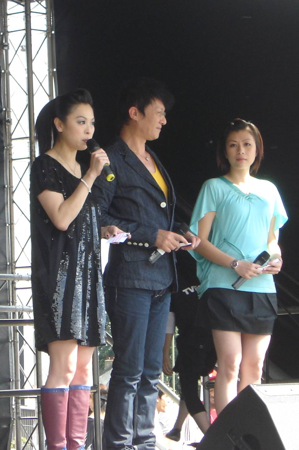 Local presenters from TVBS-Europe at its Happy Family Gala event in Brent Cross.